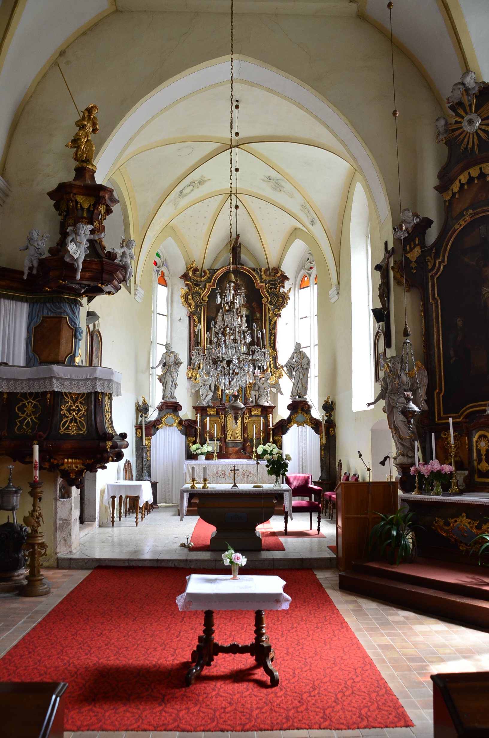 Choir with main alter